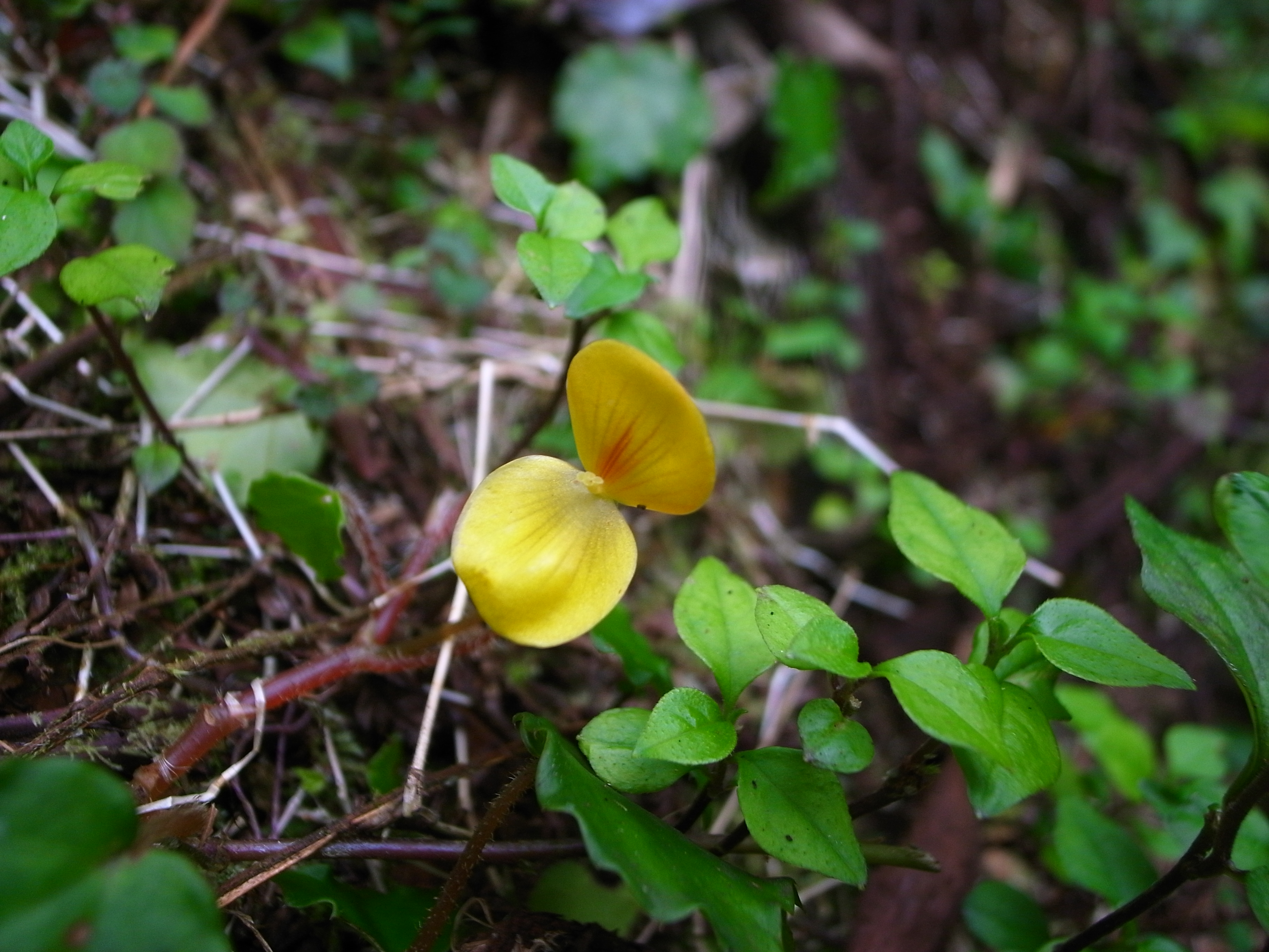 Begonia prismatocarpa, in montane cloudforest near the Iyadi Cascades viewpoint,altitude ~1000m, Moka, Bioko Sur, Guinea Ecuatorial